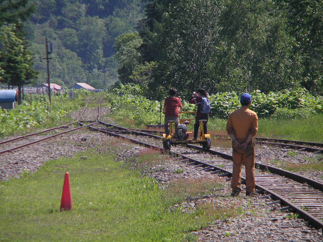 Torokko Kingdom Bifuka is a leisure spot, formerly a part of Biko Line, Japanese National Railways.